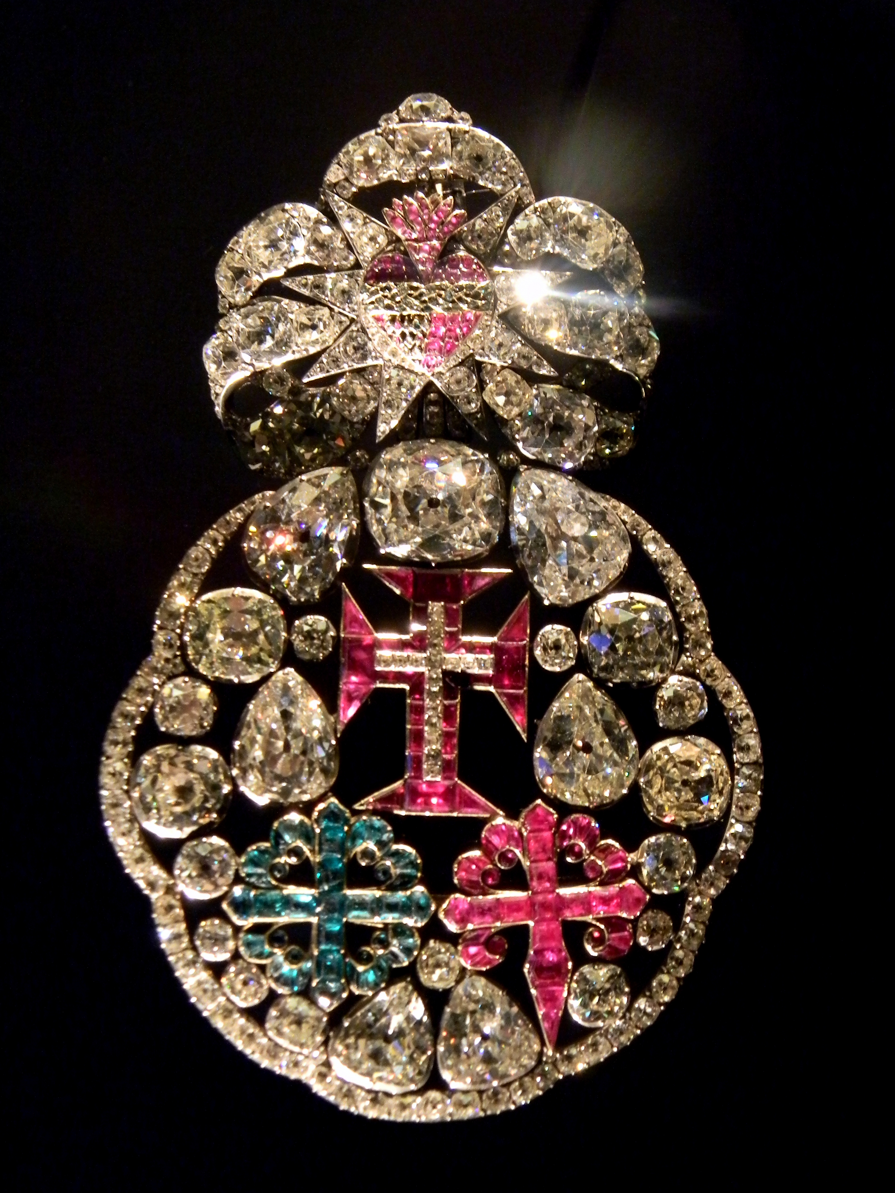 The large "Insígnia das Três Ordens Militares" (insignia of the three portuguese military orders of Christ, Avis and Santiago) belonged to the queen D. Maria I, and was made in Lisbon by the jeweller Adam Gottlieb Pollet in 1789. The insignia is made of gold, silver, diamonds, rubies, and emeralds. Nowadays belongs to the National Palace of Ajuda collection.